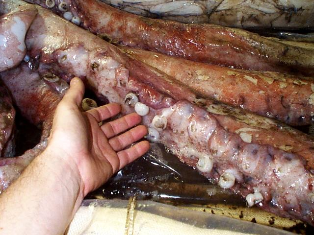 Retrieved from this government site.